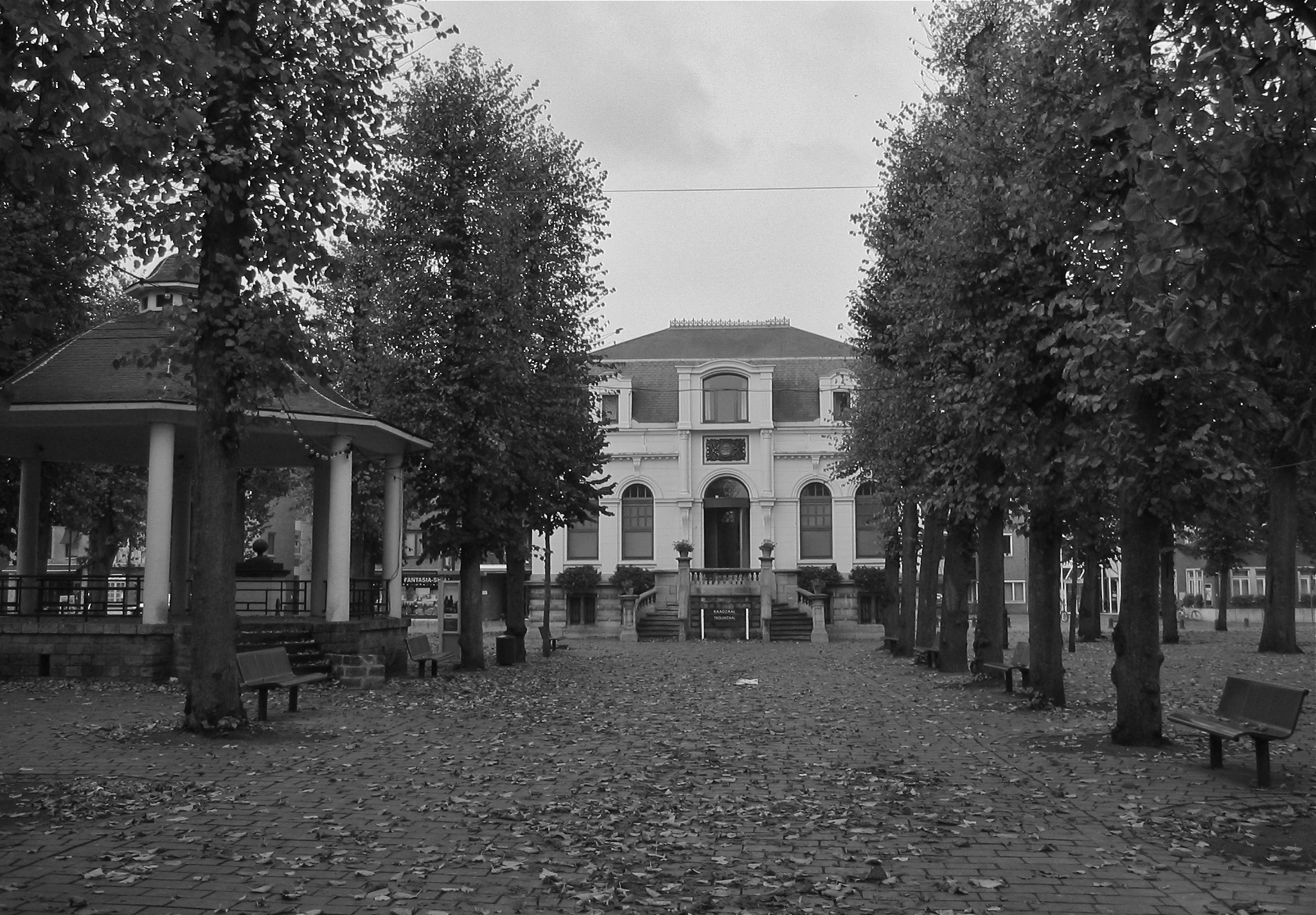 This is the old cityhouse of Lommel. Standing there from the early years of the nineteenth century had already several destinations. Noweday its used for official weddings.